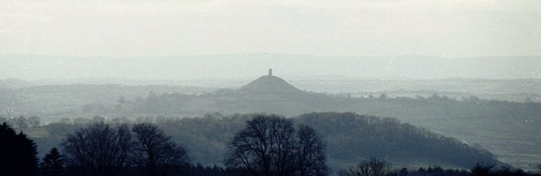 Glastonbury Tor, Glastonbury, England